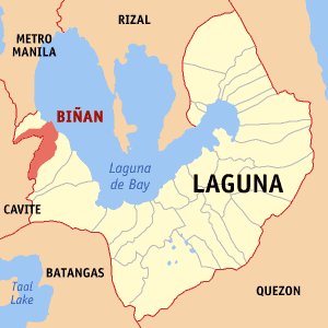 Locator map of Biñan in Laguna, Philippines.